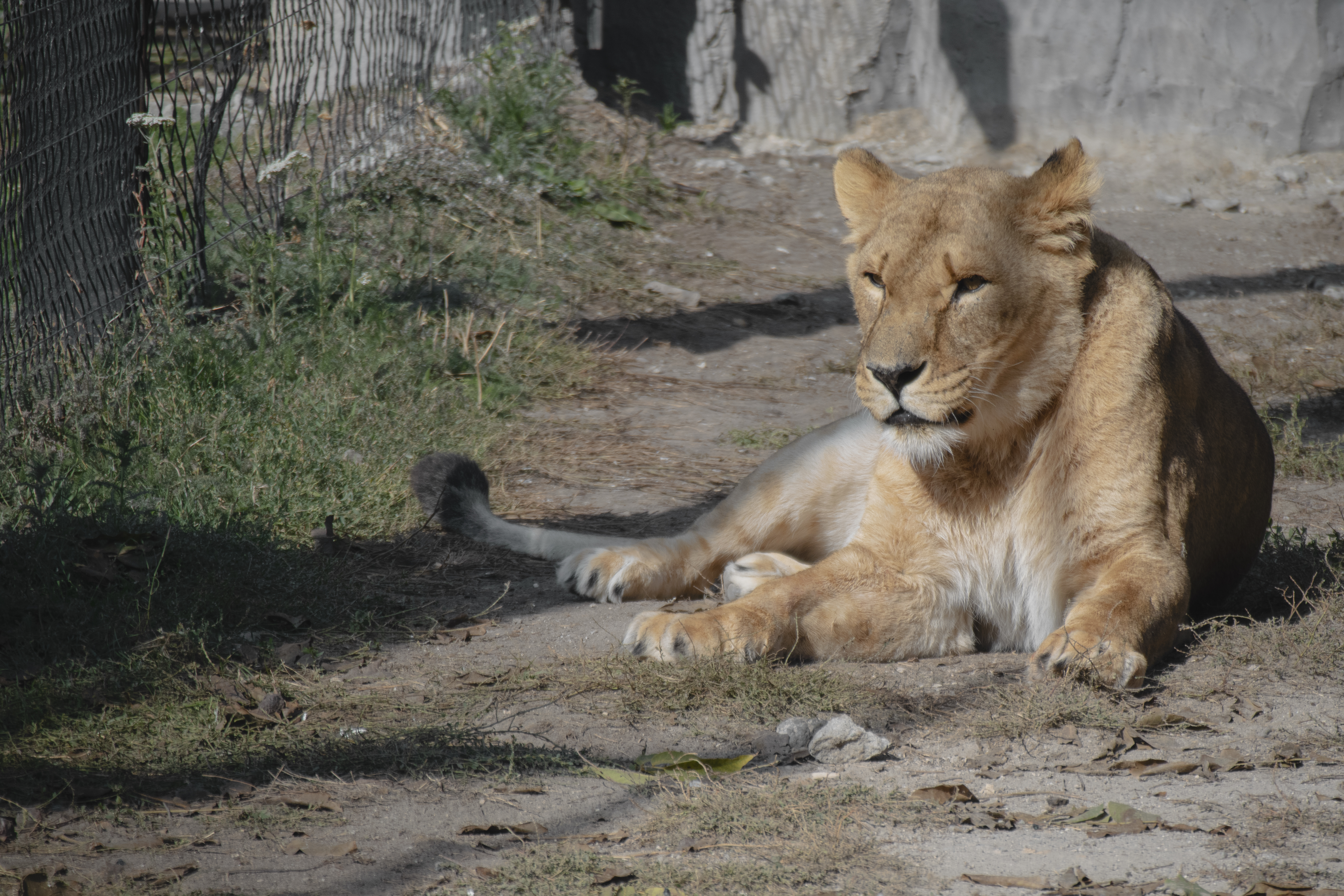 The Yerevan Zoo, also known as the Zoological Garden of Yerevan is a 35-hectare zoo established in 1940 in Yerevan, Armenia.